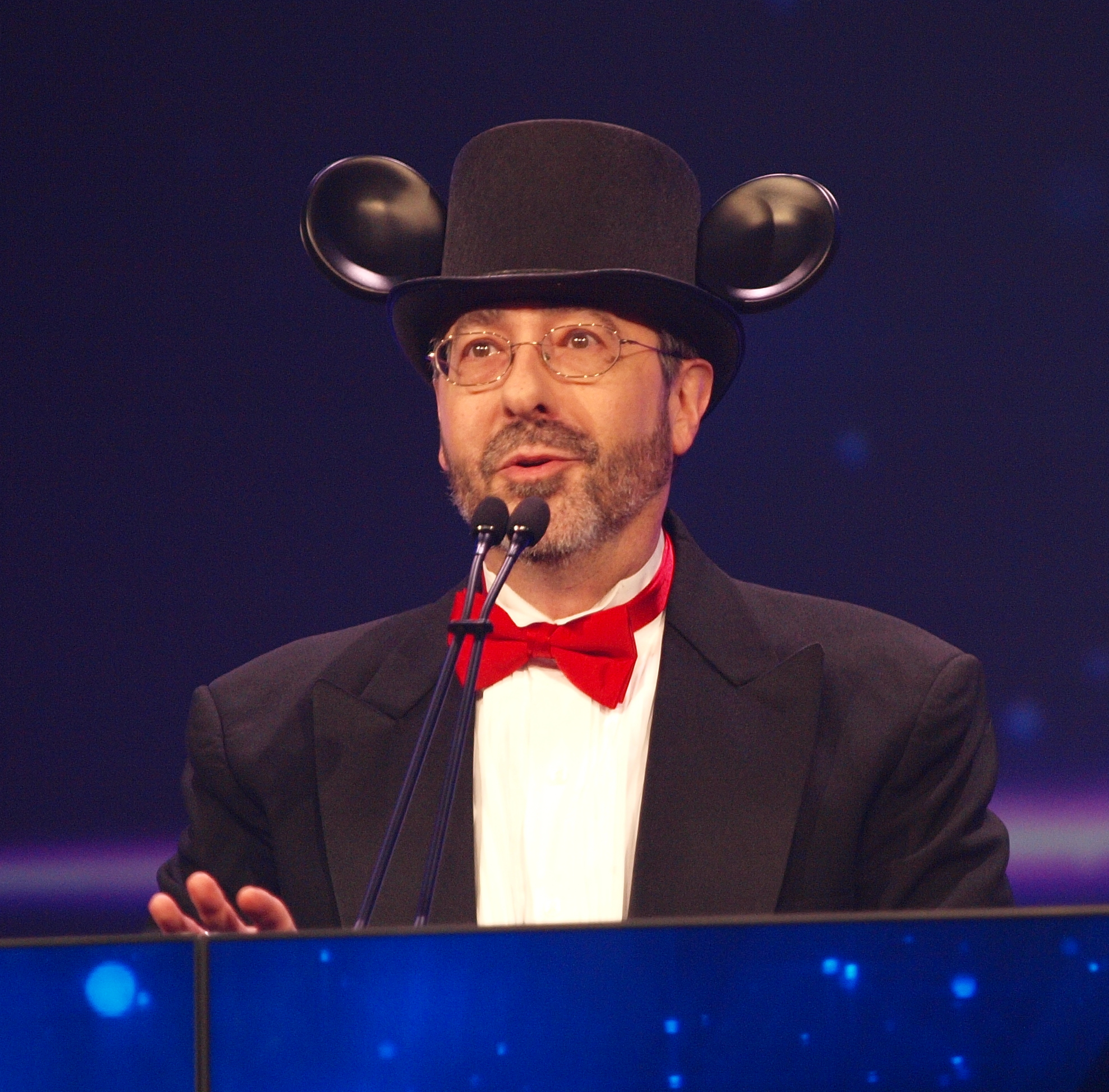 Warren Spector at the Game Developers Conference in 2010 (fourth day), during the Game Developers Choice Awards.